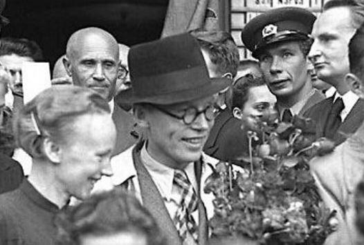 Johannes Lauristin returns from Moscow 24.7.1940 when Sovjet Estonia's government has asked to become a member of Sovjet Union. On left side Olga Lauristin, wife of Johannes Lauristin.